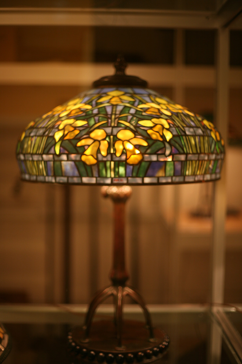 Tiffany Studios "Daffodil" table lamp c. 1910-1913 28 x 21 in. ( 71.1 x 53.3 cm ) Glass, bronze Gift of Dr. Egon Neustadt New-York Historical Society N84.90 Wikipedia Loves Art at the New-York Historical Society This photo of item # [1] at the New-York Historical Society was contributed under the team name "shooting_brooklyn" as part of the Wikipedia Loves Art project in February 2009. New-York Historical Society The original photograph on Flickr was taken by shooting brooklyn—please add a comment to the original Flickr page whenever a use has been made on Wikipedia or another project. Project galleries on Flickr: this institution, this team